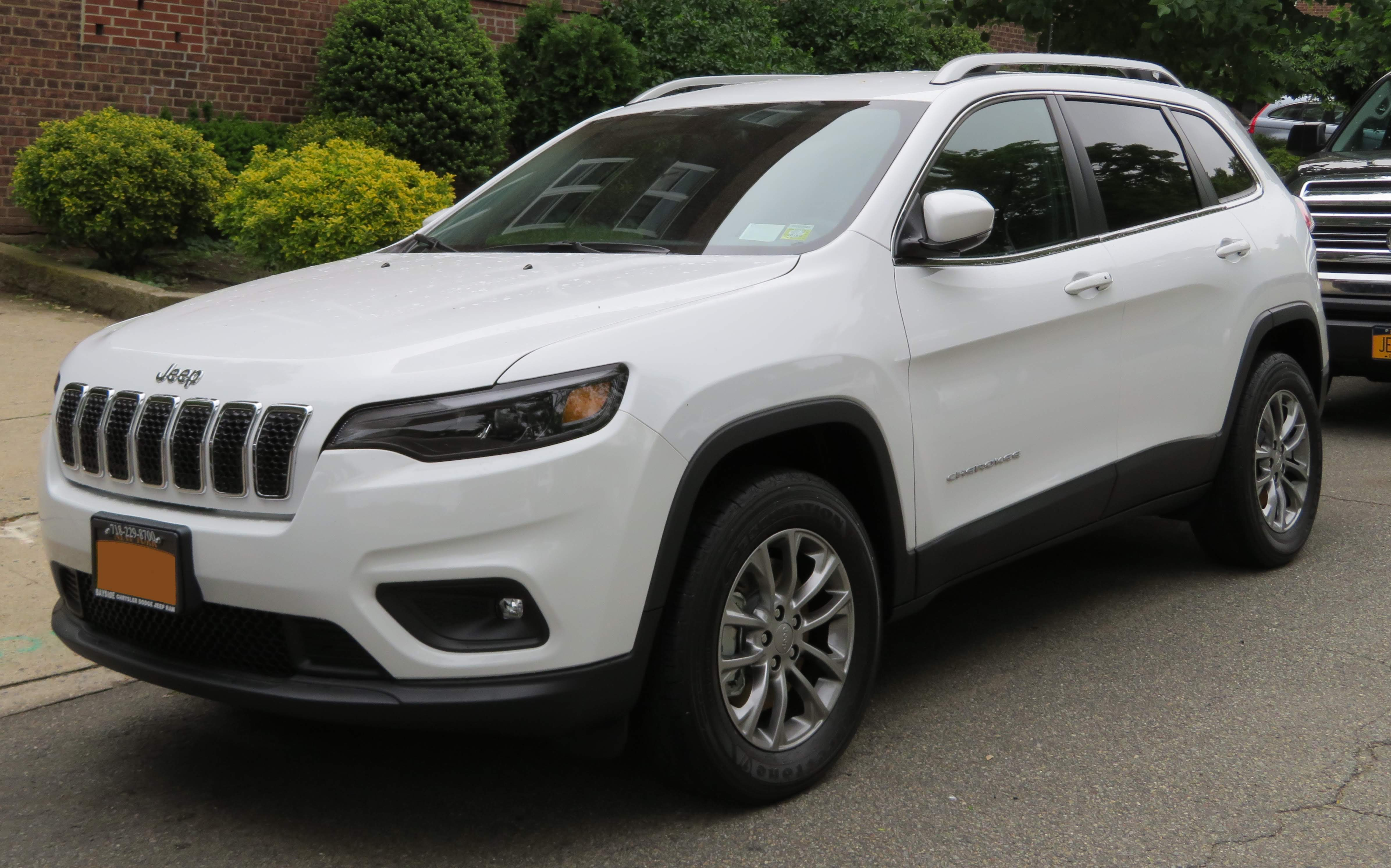 Photographed in Queens, New York